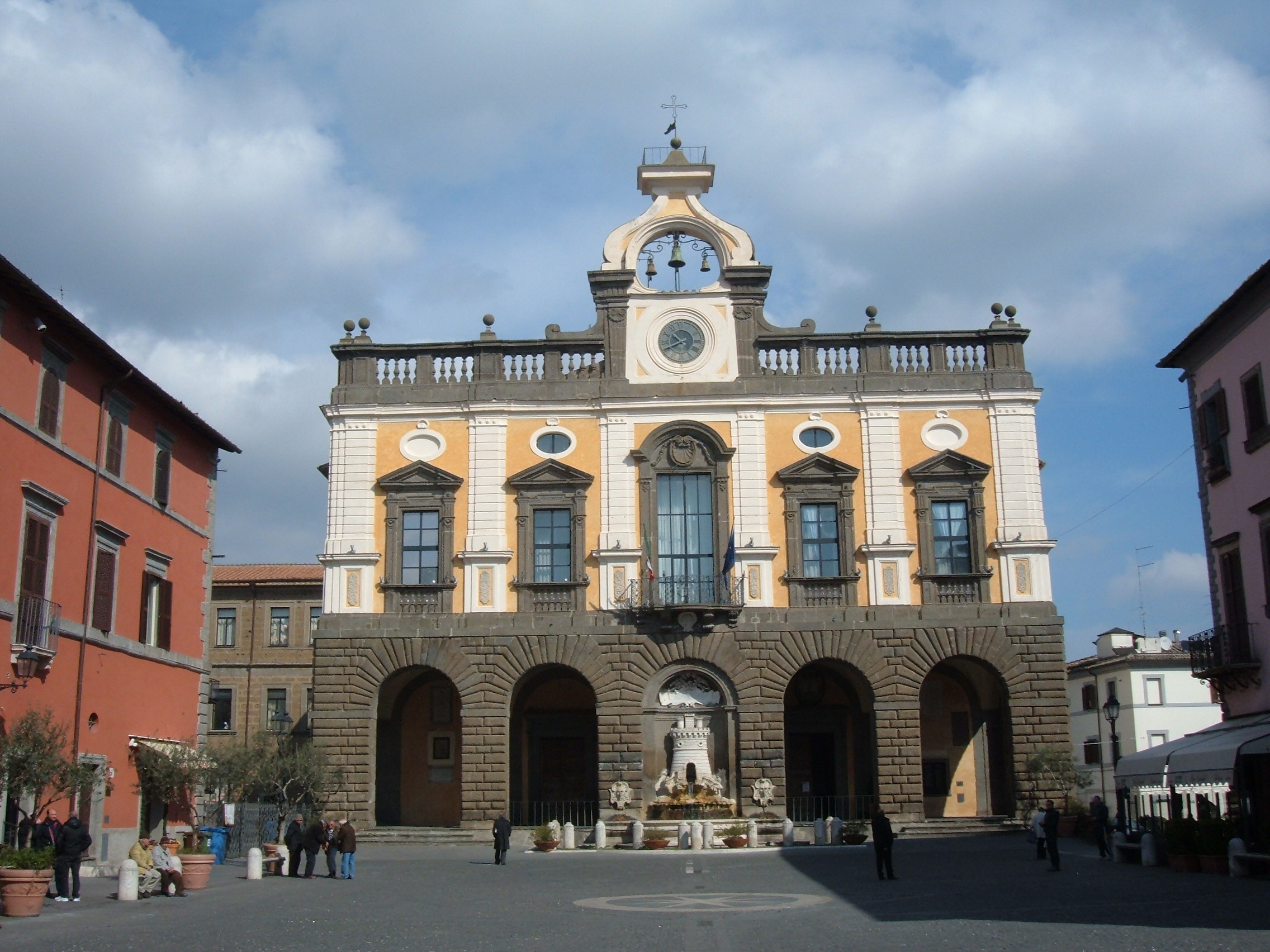 Townhall (Nepi)